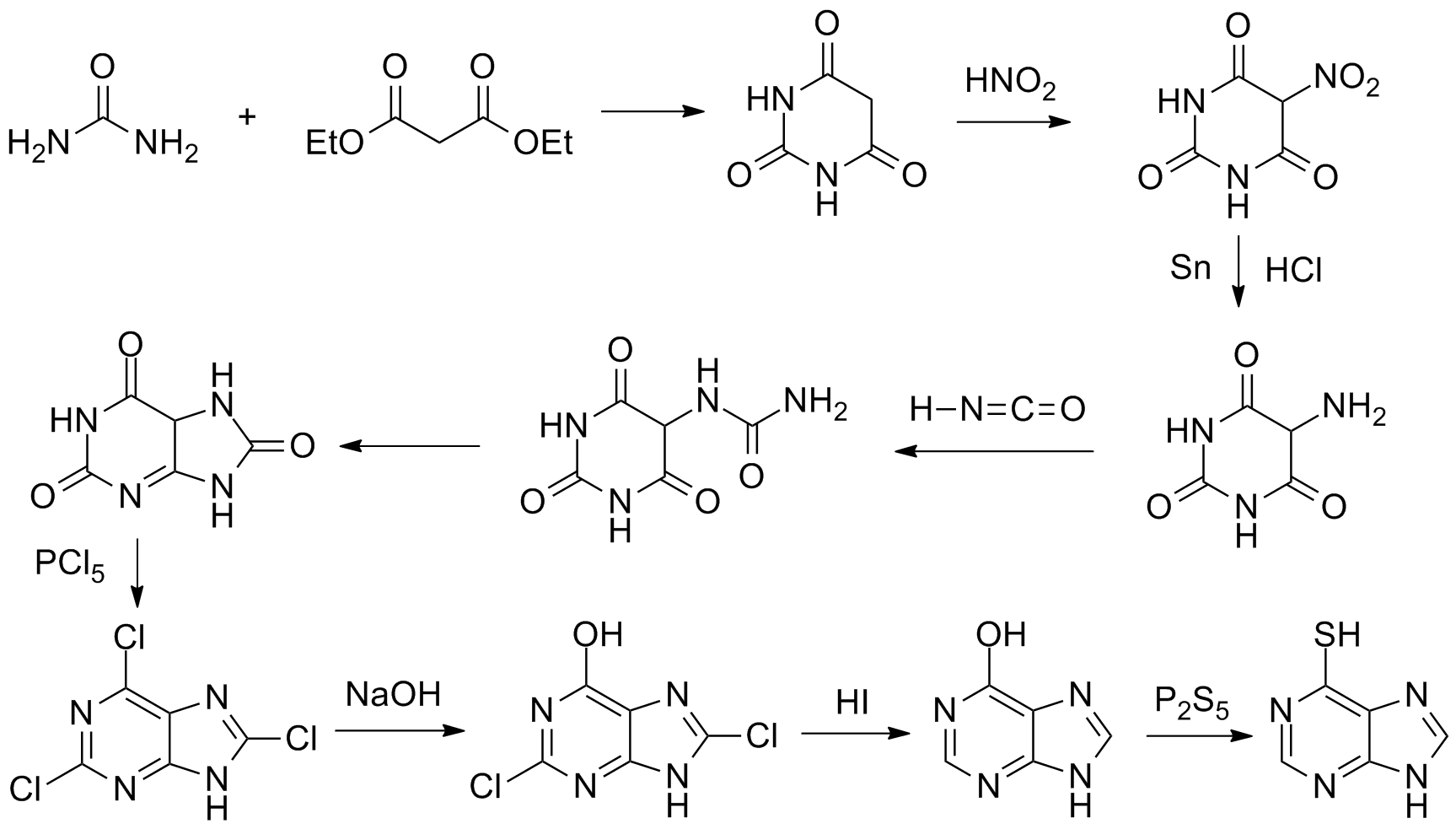 GB 713286 US 2721886 US 2724711 US 2933498 US 267709